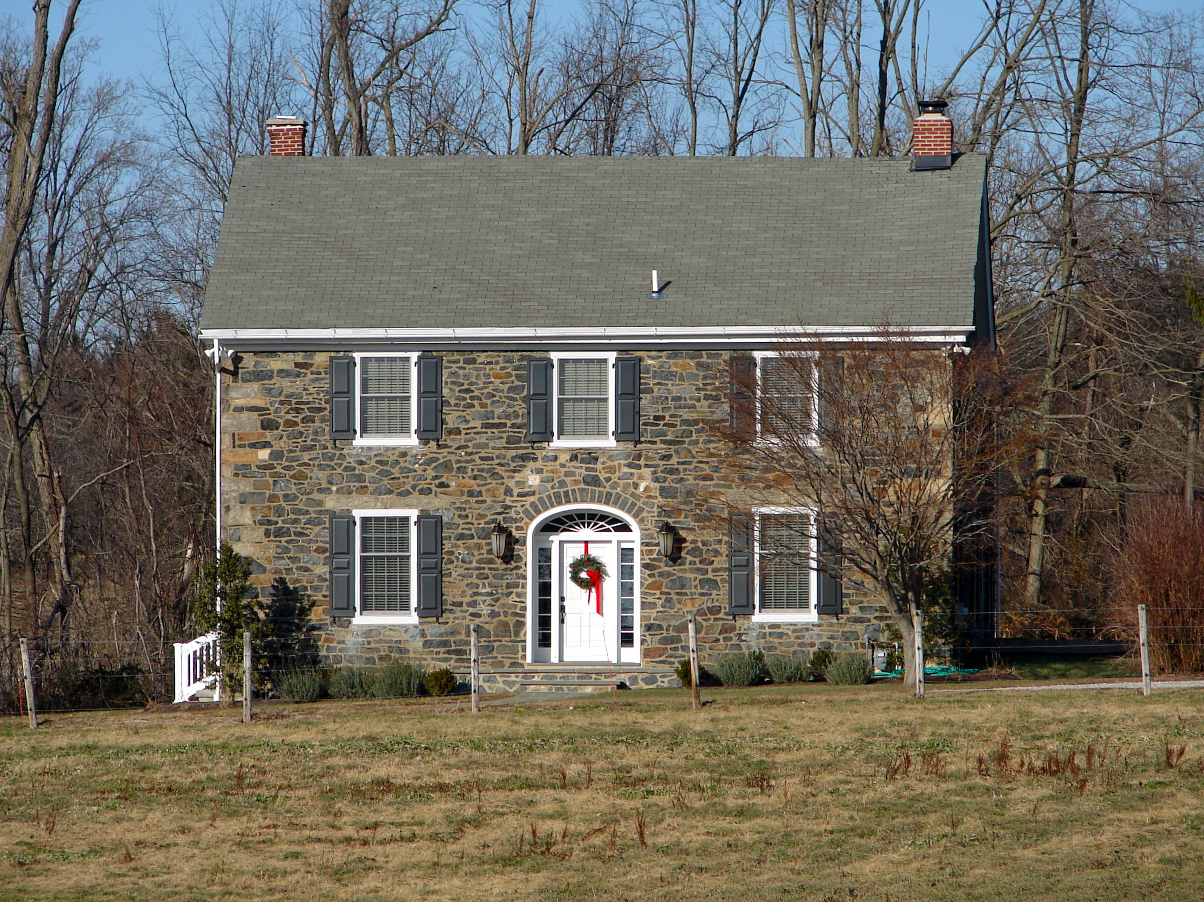 William Morgan Farm on the NRHP since November 13, 1986. On Wilmington-Landenberg Rd. north of Corner Ketch Rd. north of Newark, Delaware. Nice barn across the street. No parking within a half mile.